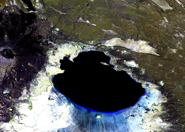 The Boina fumarole field immediately north of Lake Abbe (center). Location - border Ethiopia, Djibouti.